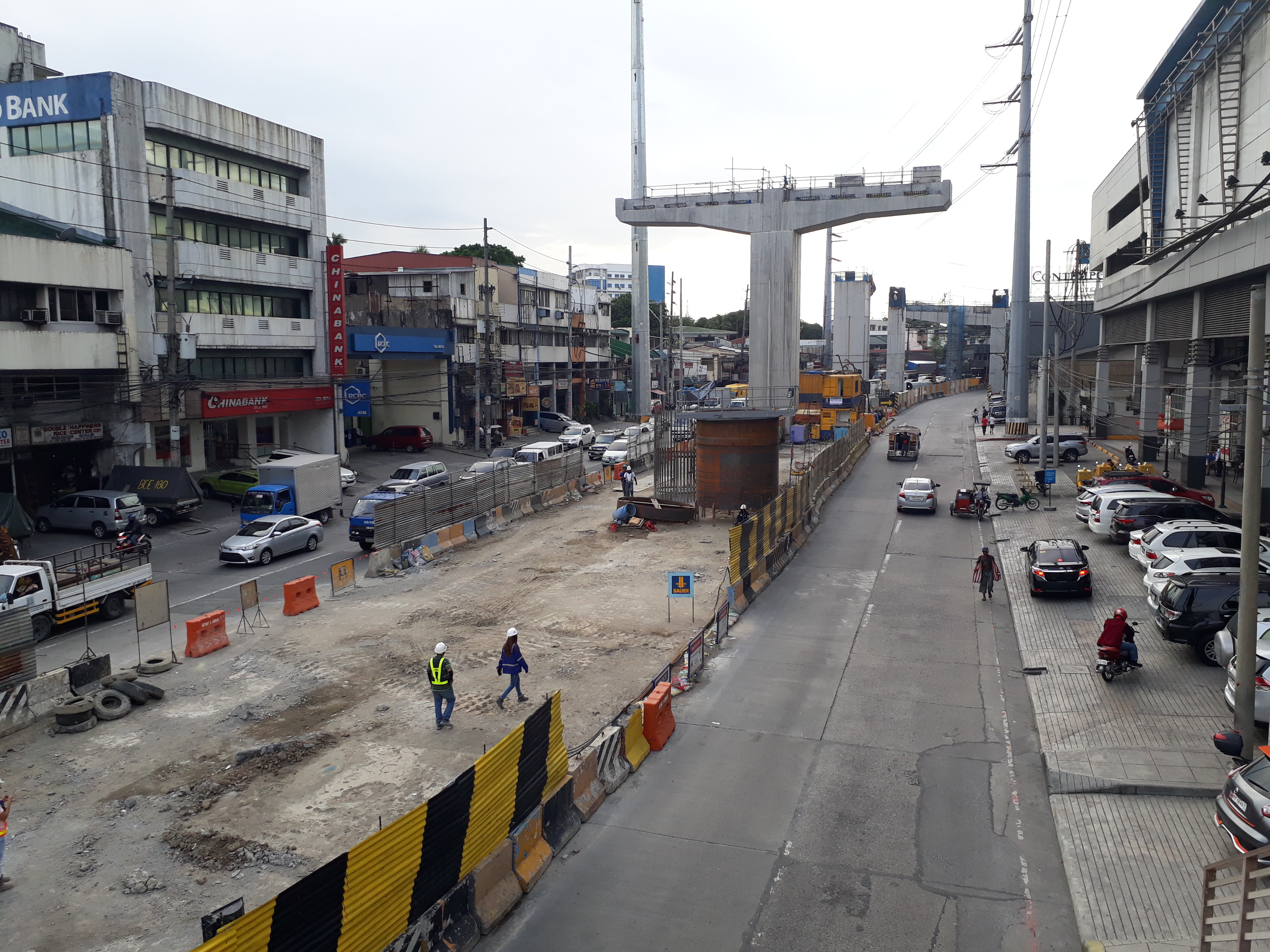 Skyway Stage 3 project at G. Araneta Avenue, Quezon City